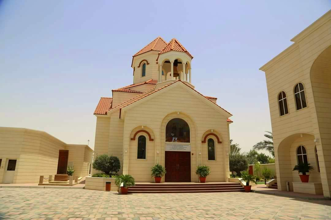 Armenian church, Abu Dhabi (6 May 2016)